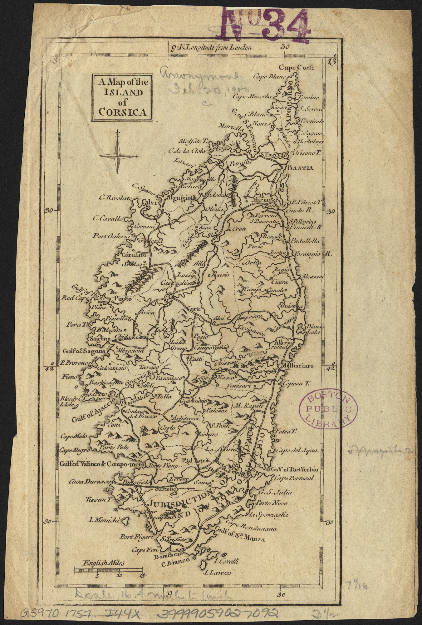 Zoom into this map at . Author: Jefferys, Thomas Date: 1757 Location: Corsica (France) Dimension 18x9cm Scale: ca. 1:1,039,000 Call Number: G5970 1757 .J44x